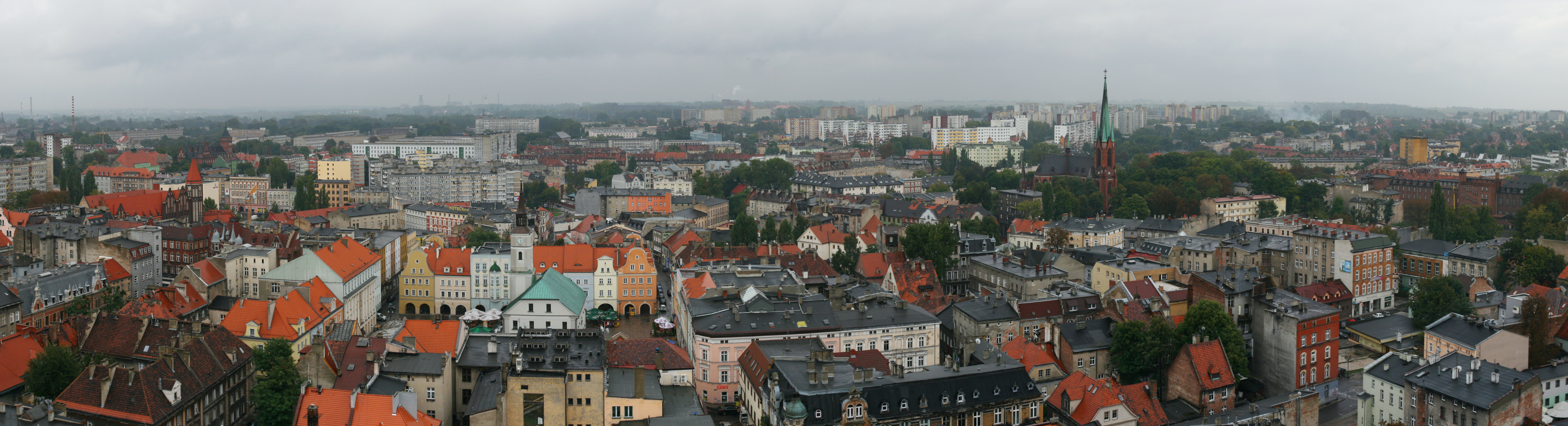 Panorama of the old town and market square of Gliwice (Poland).